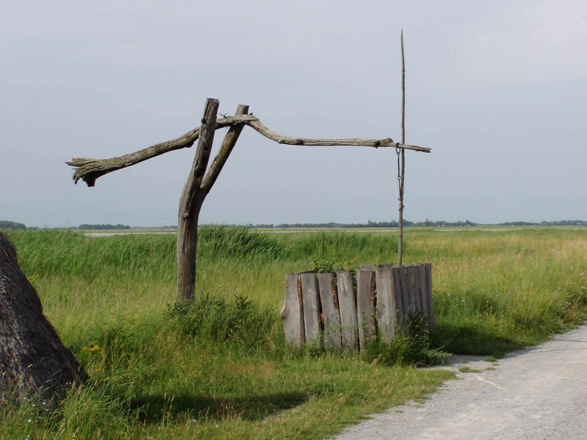 Well at Lange Lacke, Seewinkel, Burgenland, Austria